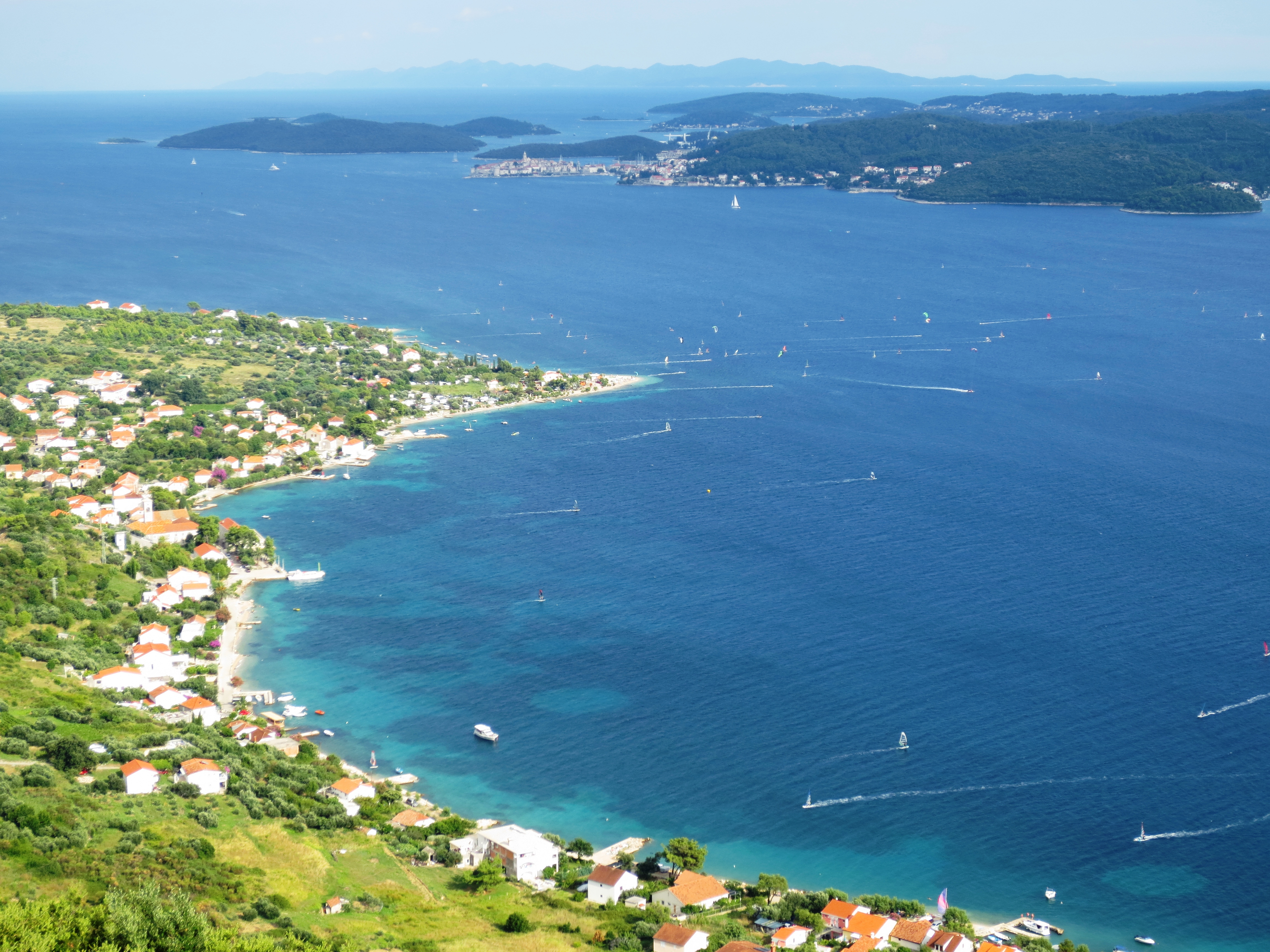 Viganj overview